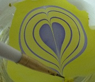 An example of water marble nail method for free-dragging.